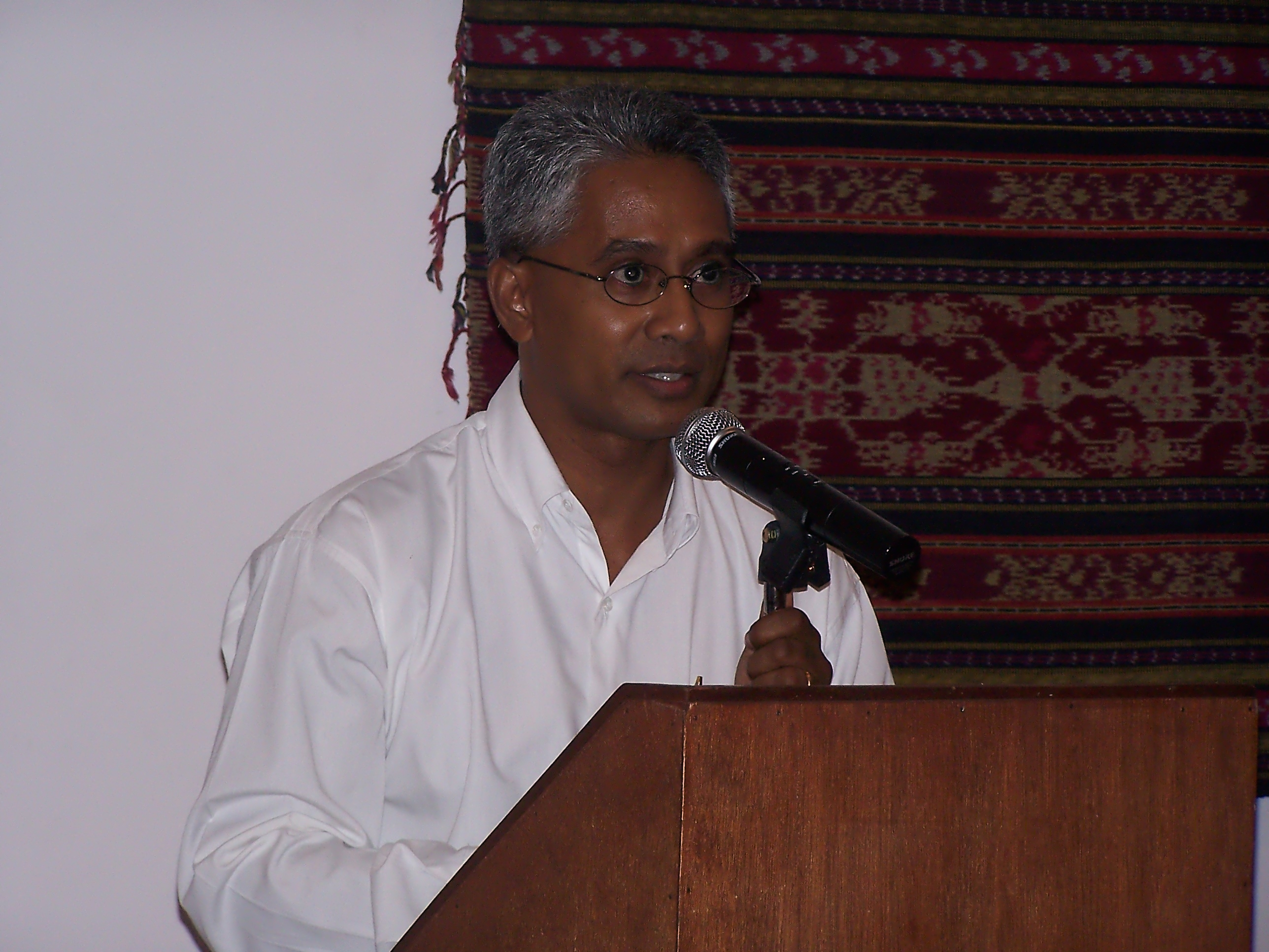 Zacarias da Costa, East Timor's Foreign minister. Photo taken at Hotel Timor.